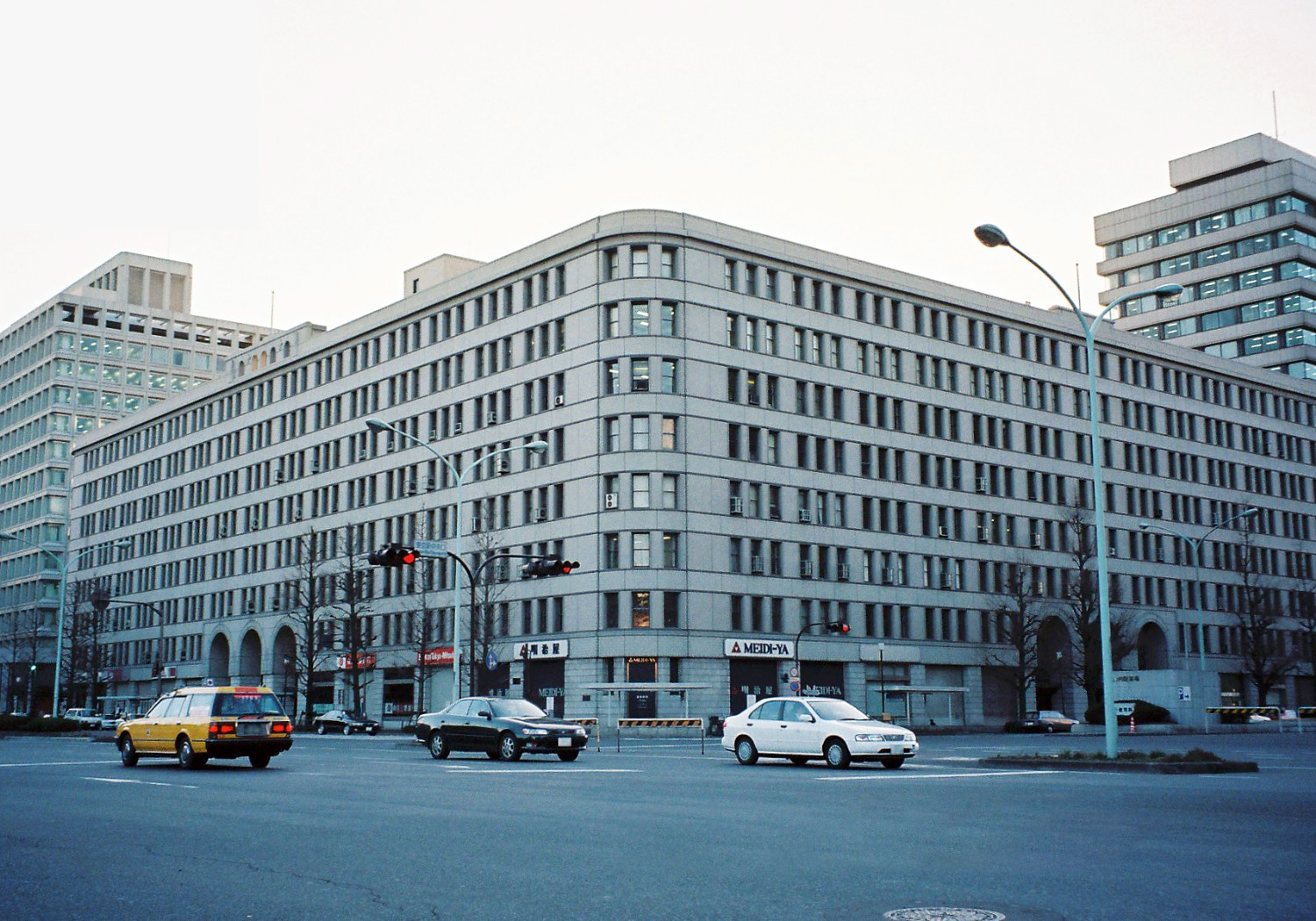 First Marunouchi Building.